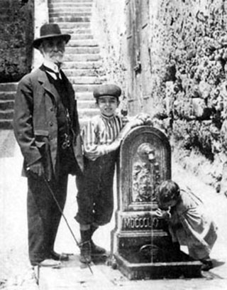 Photography : Giuseppe Pitrè, italian folklorist (1841-1916) Photographie : Giuseppe Pitrè, folkloriste italien (1841-1916)